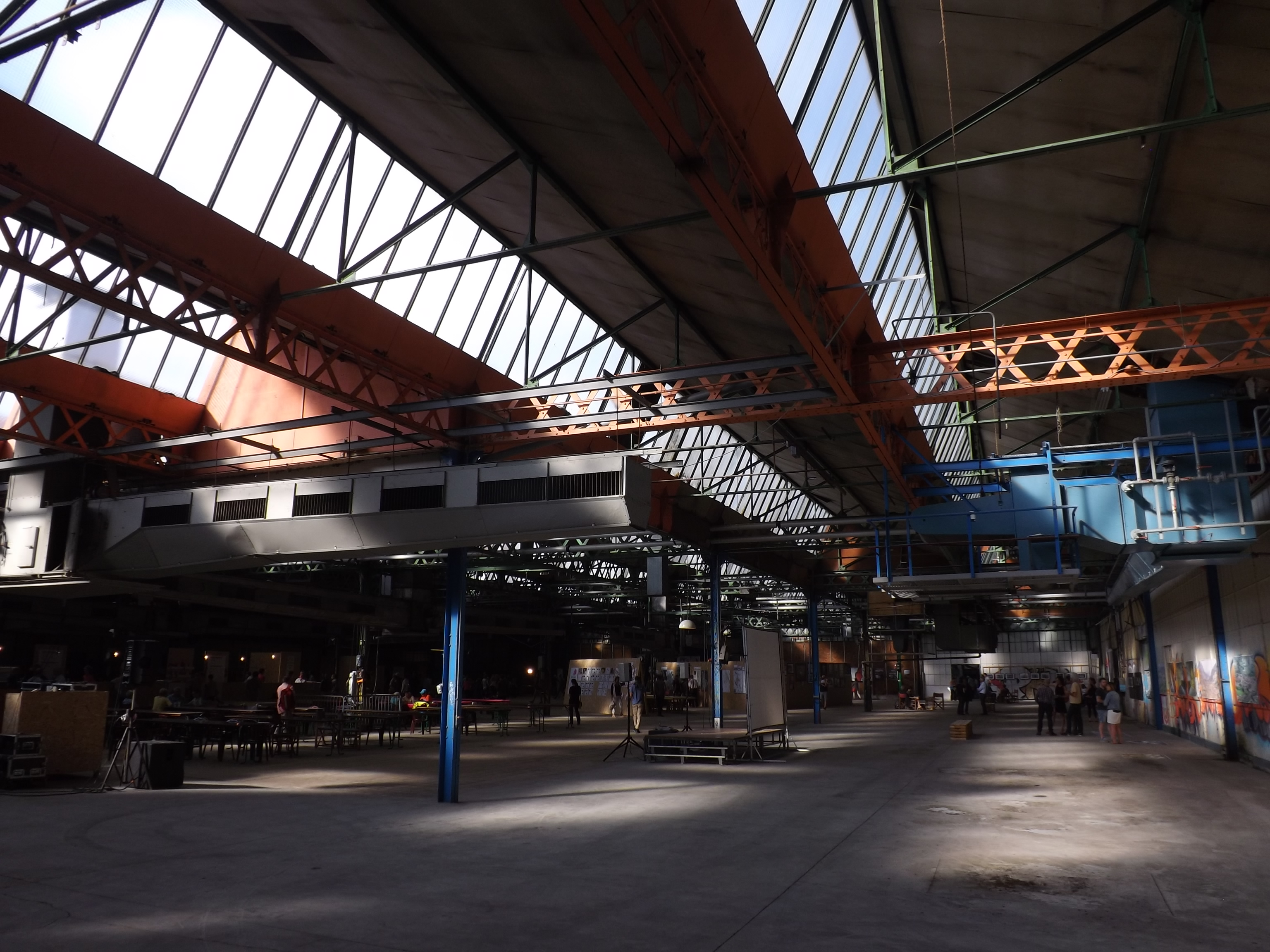 Inside sight of the old Usine A factory building run by Saint-Gobain-Vétrotex textile glass maker during several decades, in Chambéry, Savoie, France.